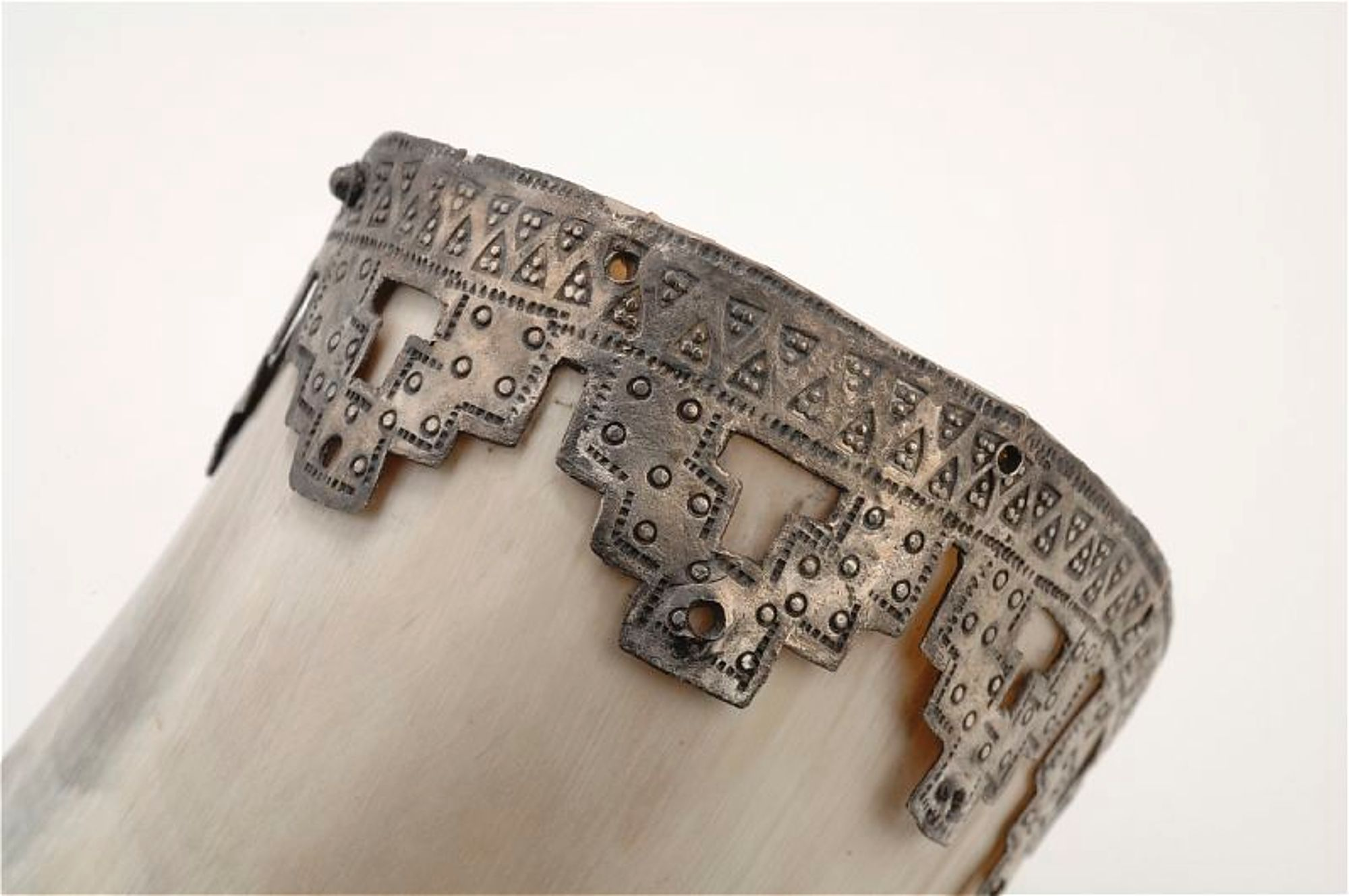 Vessel, drinking horn, rim, viking age